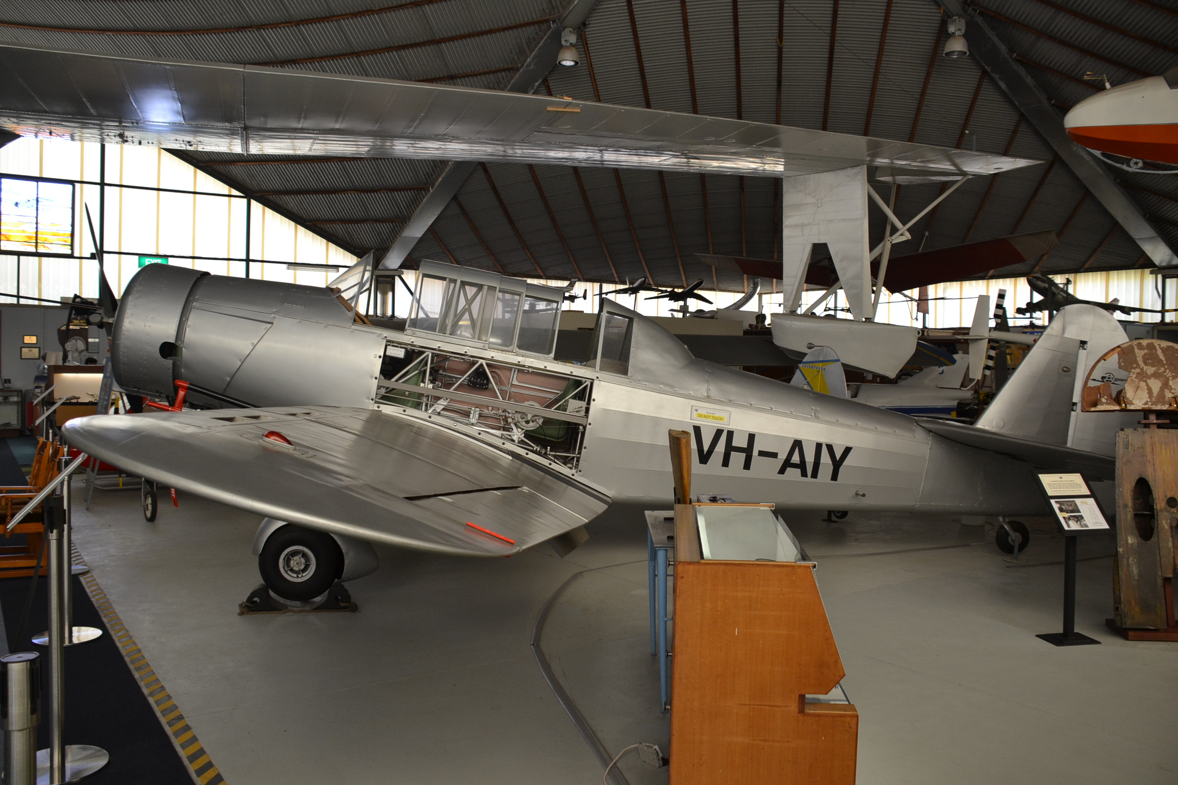 Commonwealth CA-6 Wackett Trainer at the RAAFA Aviation Heritage Museum, Bull Creek, Perth, Western Australia., 29/11/14.